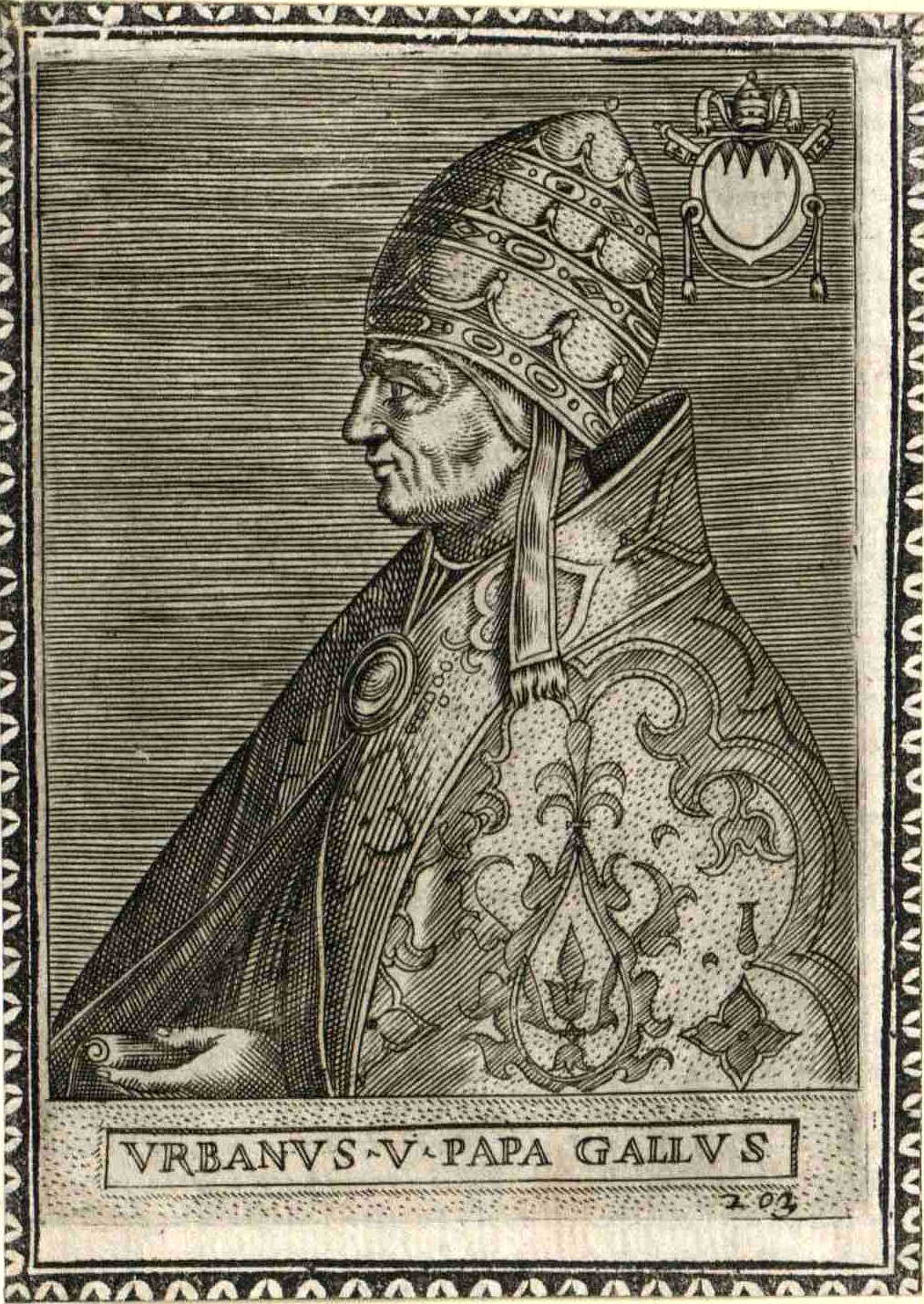 Urban V., papa